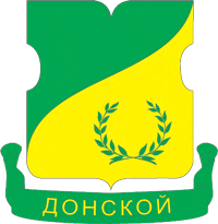 Donskoy (rayon of Moscow), coat of arms (2001)